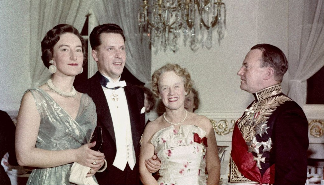 Photograph of the Finnish diplomat Jaakko Hallama (1917–1996) with his wife Anita Hallama (1925–2008) and the ambassador of Sweden, Gösta Engzell (1897–1997) with his wife Anna, at the Finnish Independence Day reception at the Presidential Palace in Helsinki.